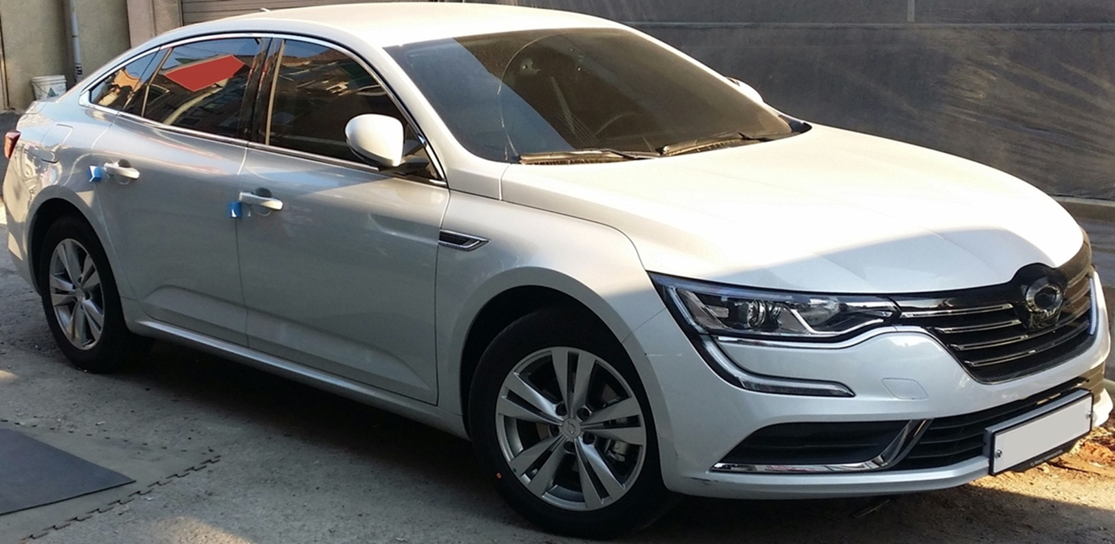 Renault Samsung SM6